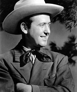 Red Foley